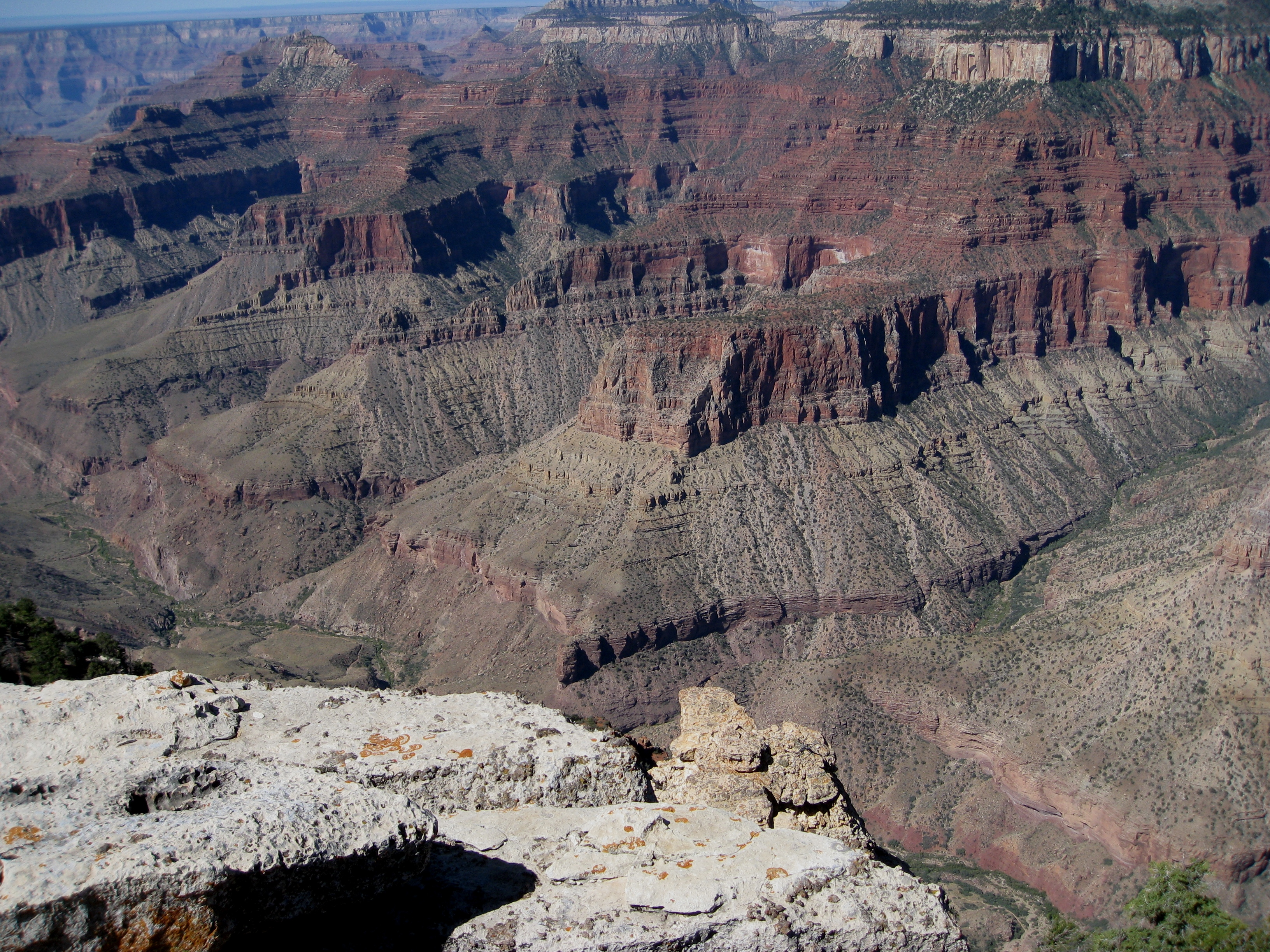 Komo Point is out on the North Rim of the Grand Canyon, it was a great warmup hike for us before going Rim to Rim. The trail can be obscure in a few places, it starts fairly well defined but then the trail becomes a little challenging to follow. gc 218